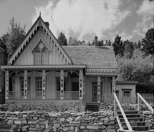 The Lace House, 161 Main Street, Black Hawk, Gilpin County, Colorado. Built 1860's, restored. Use: museum. Historic American Buildings Survey Photo courtesy of the US National Park Service.